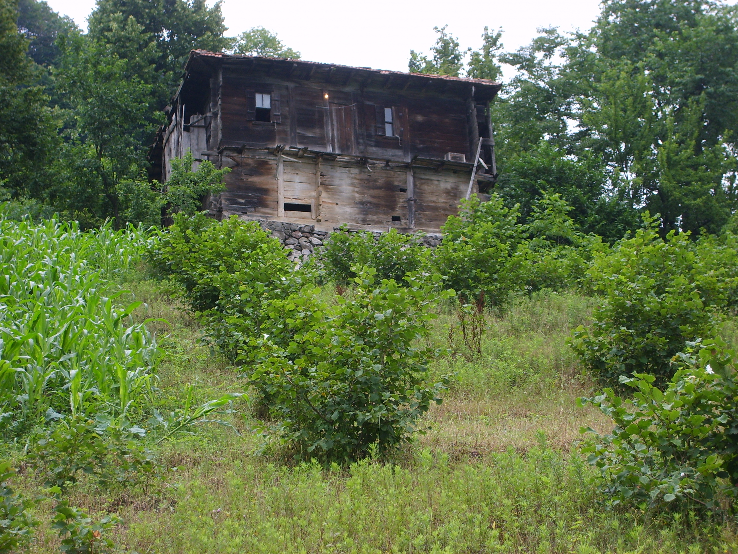 A wooden house in the Kozluk neighborhood of Akbaba village, 2014